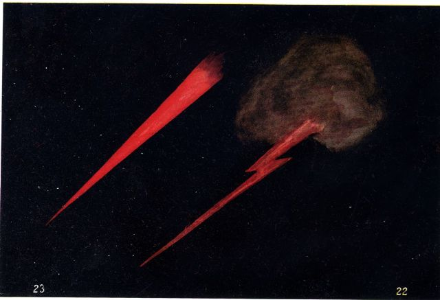 Thought forms from Thought-Forms, by Annie Besant & C.W. Leadbeater.